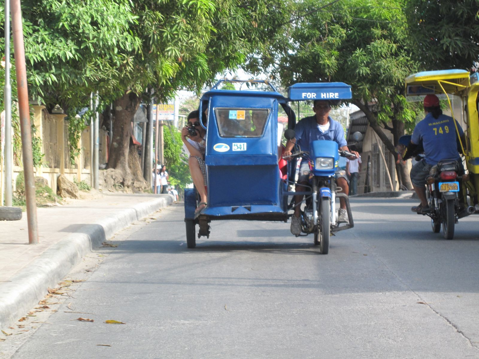 Tricycles on Boracay Island's main road. Tricyles are the primary mode of transportation on the island.